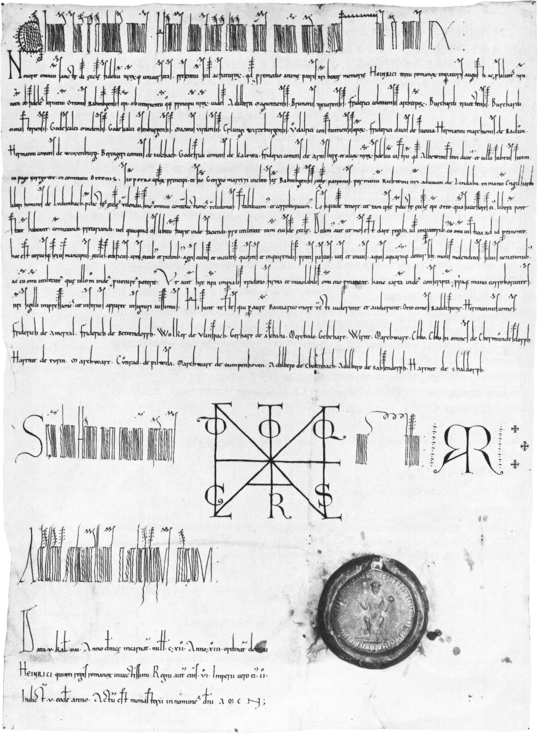 A charter of emperor Henry V for bishop Otto of Bamberg, issued on April 27th, 1112. München, Bayerisches Hauptstaatsarchiv, Kaiserselekt 440 a.